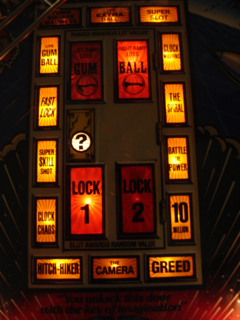 This is a closeup picture of the door panels on my personal Twilight Zone pinball machine.